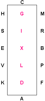 A large sized arena for dressage tests (20m by 60m)